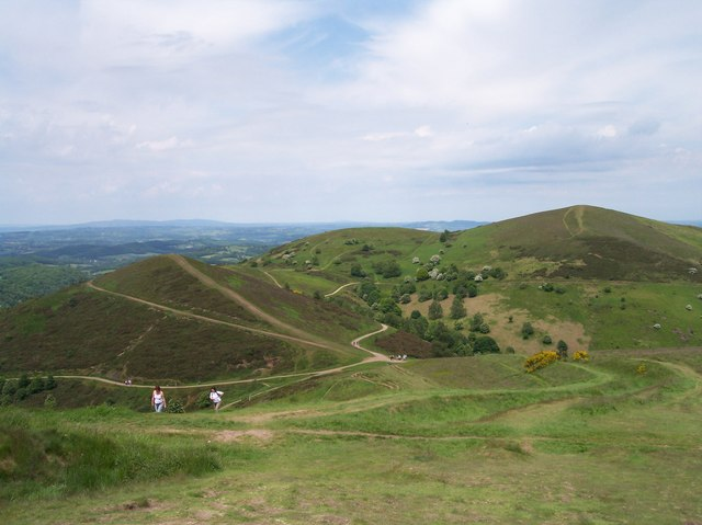 Sugarloaf Hill (with Table Hill and North Hill) Looking NNW from Worcestershire Beacon we have, from left to right, Sugarloaf Hill, Table Hill and North Hill. Clee Hill is on the skyline beyond Sugarloaf and the Wrekin (64km away)can just be seen as a grey blur beyond Table Hill (on the high definition picture)